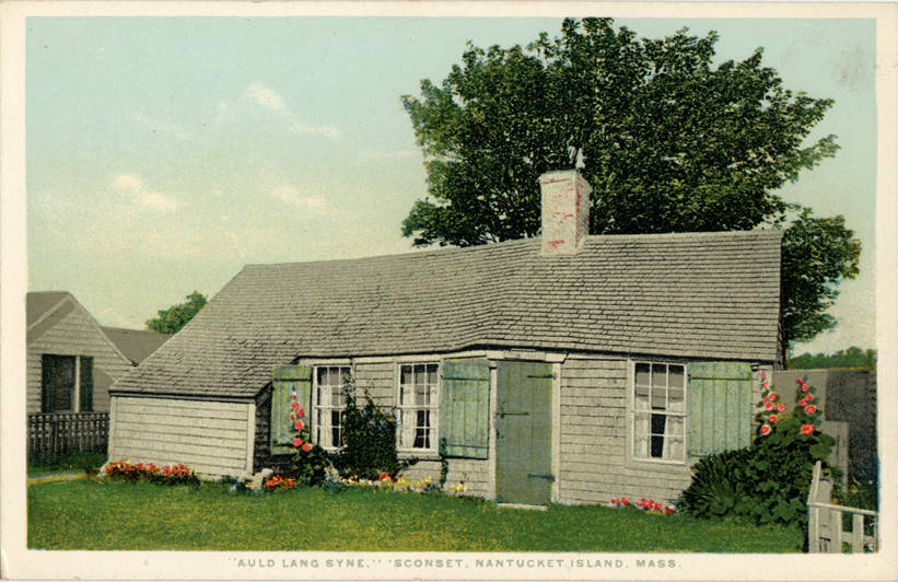 Auld Lang Syne Sconset